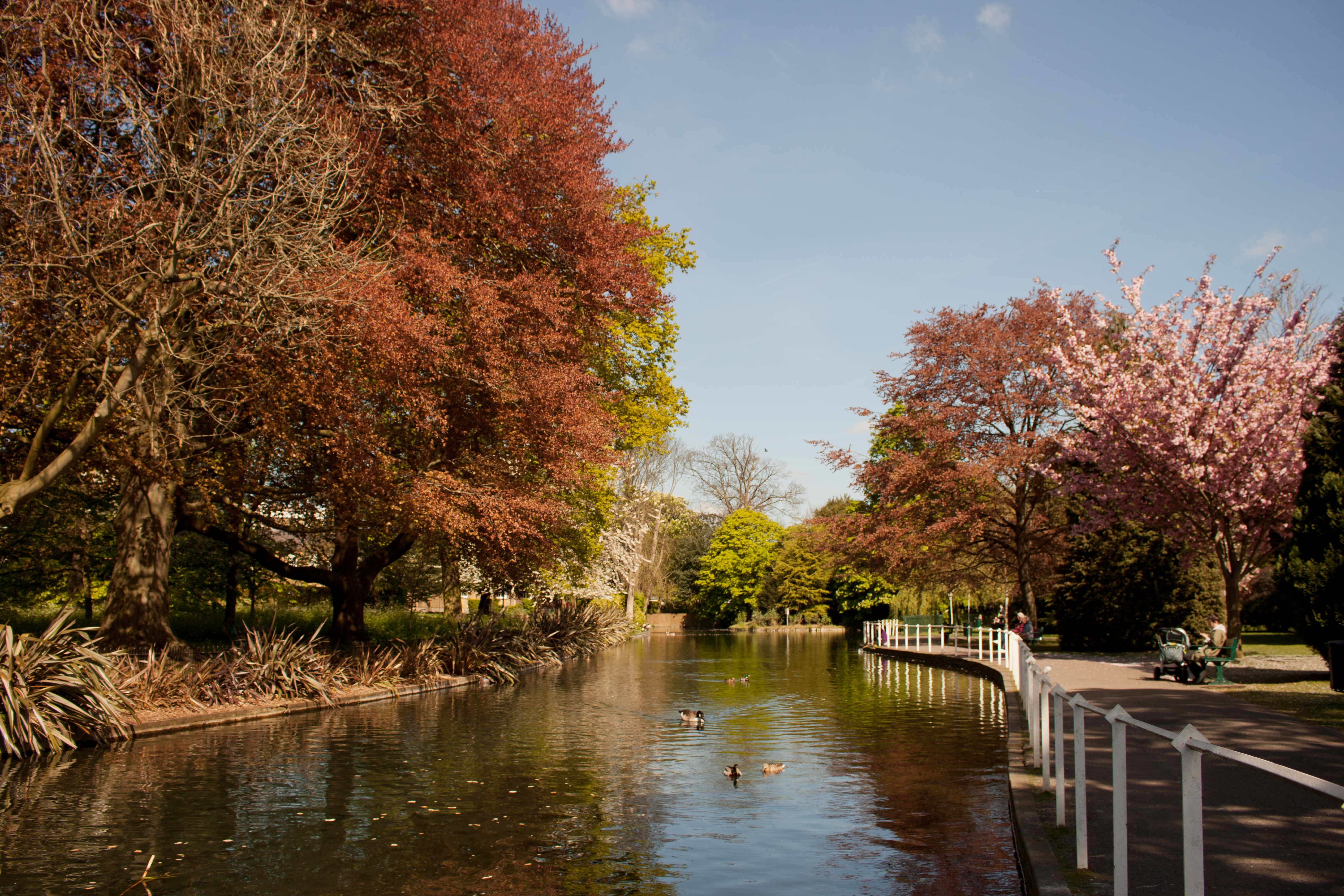 UK London - River Wandle, Carshalton